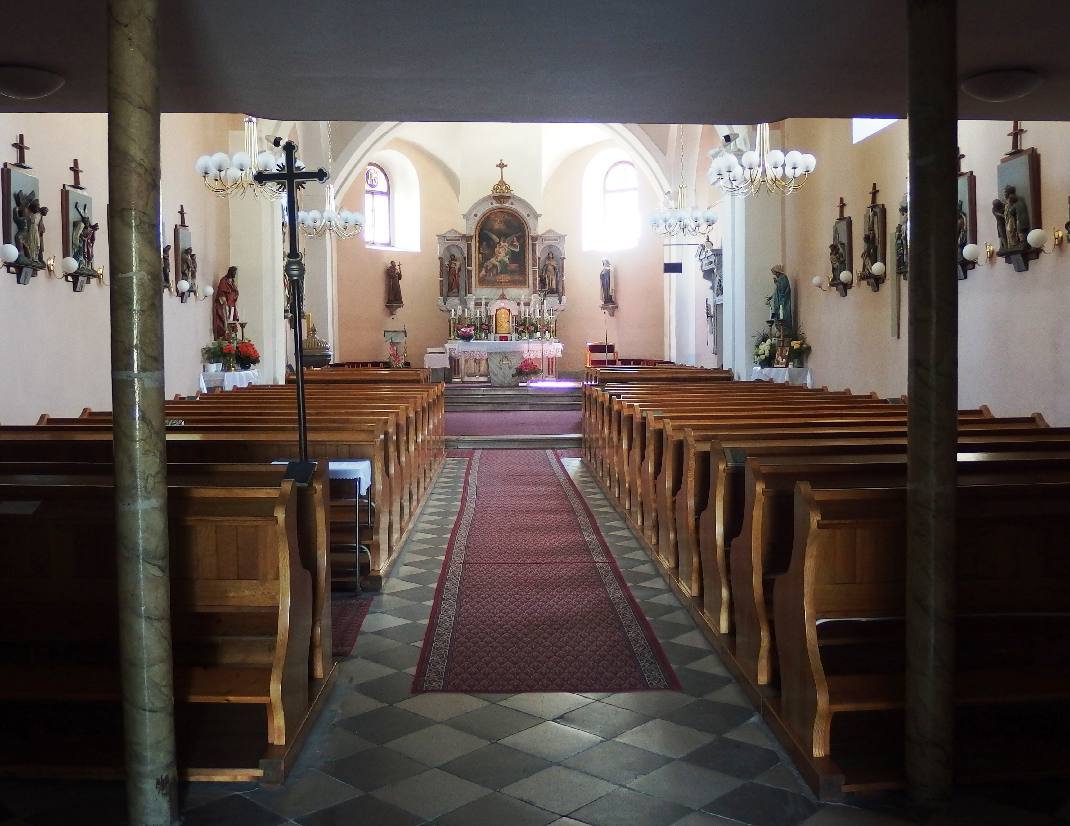 Stěbořice, Opava District, Czech Republic. Church of the Nativity of the Virgin Mary.